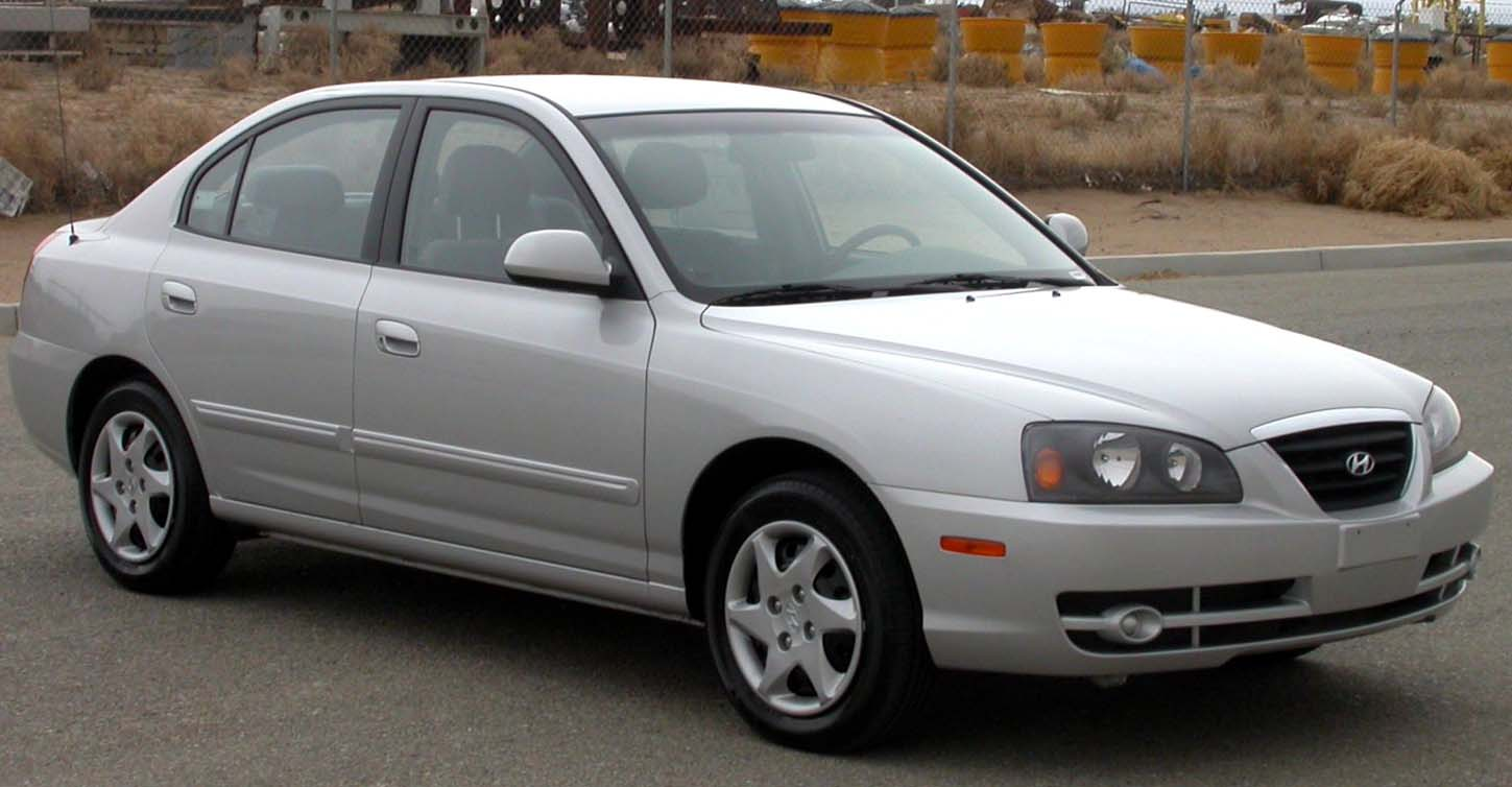 2004 Hyundai Elantra GLS photographed in USA.